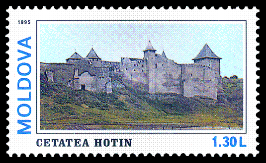 Stamp of Moldova